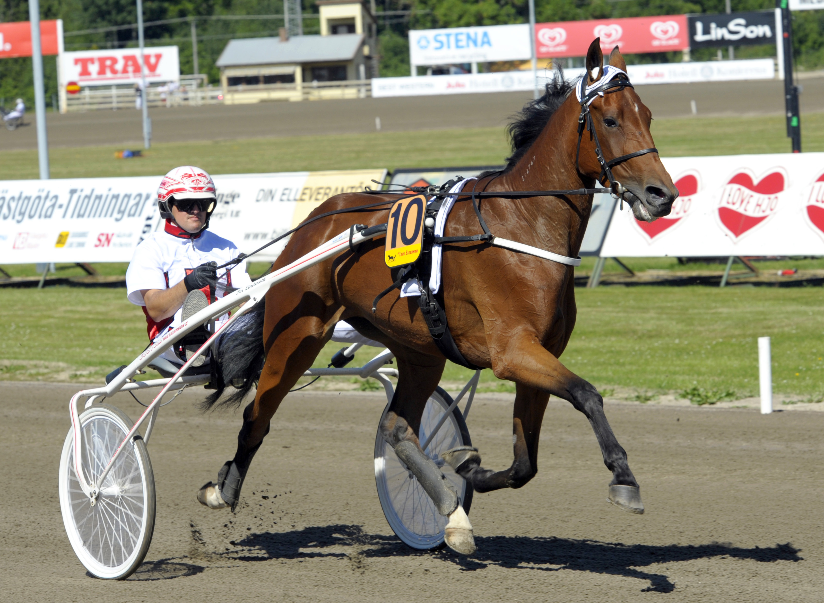 Foto: Martin Langels/ALN Axevalla 2013-07-21